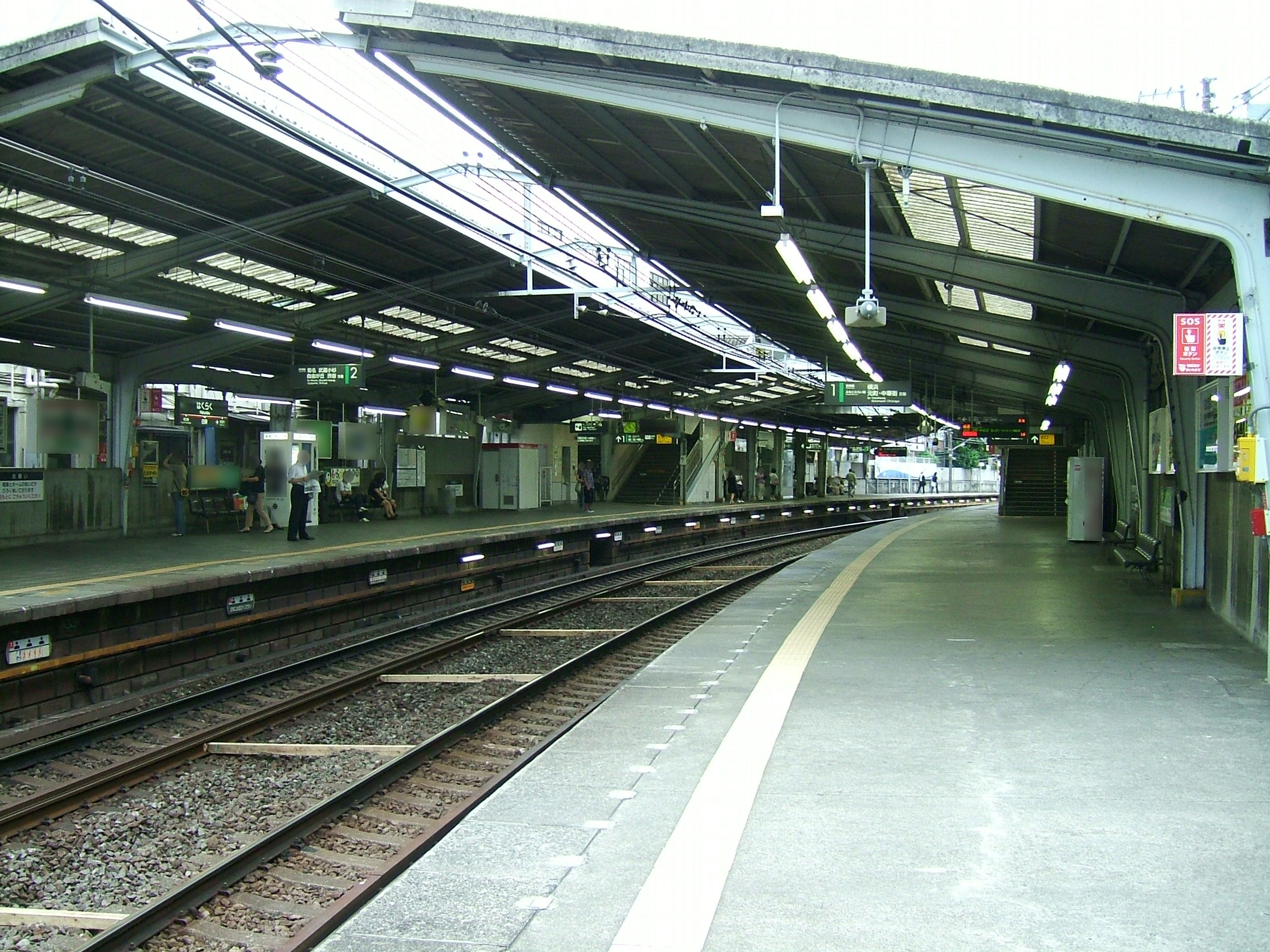 Hakuraku Station platform (Tōkyū Tōyoko Line)